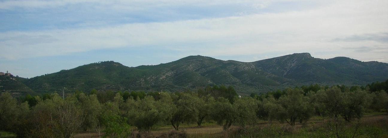 Serra de la Vall d'Àngel mountain chain. Northern end seen from the east